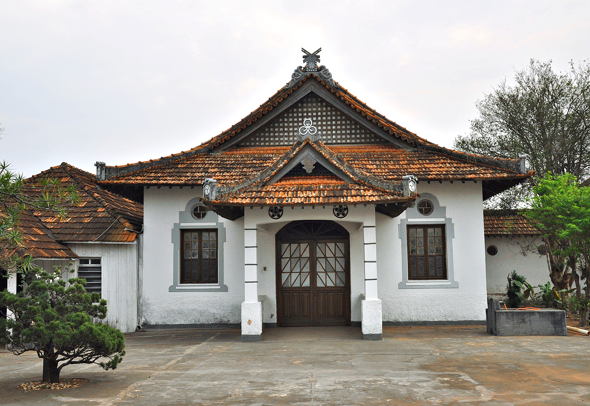 TEMPLO TENRIKYO – Marilia foi uma das cidades que mais recebeu imigrantes japoneses. Sua história está estreitamente ligada aos orientais. Na foto, o principal templo da colônia na cidade, a Tenrikyo. Visitantes até do Exterior costumam visitá-la.Marília – SP (Igrejas e Templos) – Localização: S 22° 12.055´ - W 49° 57.455´Crédito obrigatório – Foto: Cleber Fontoura